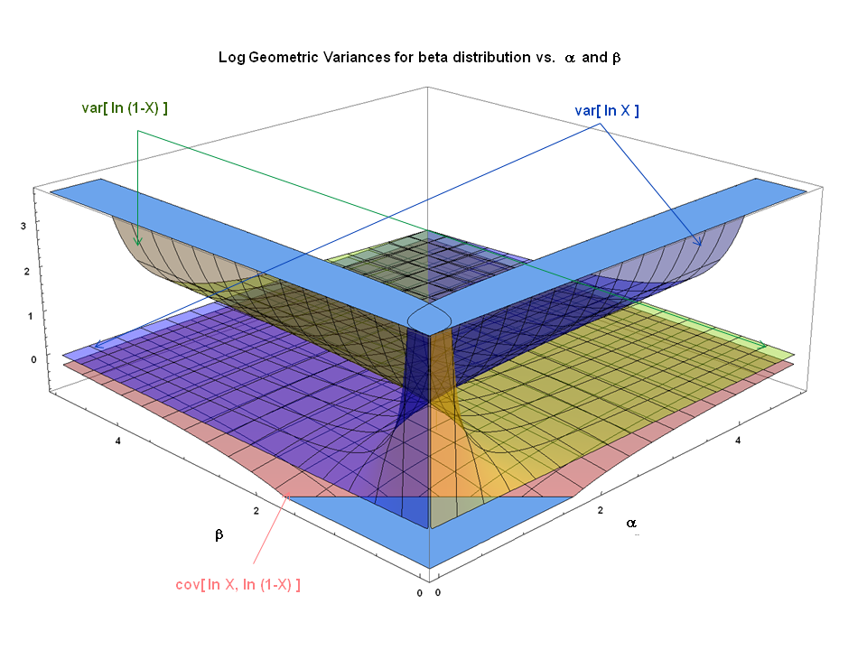 Beta distribution log geometric variances back view - J. Rodal